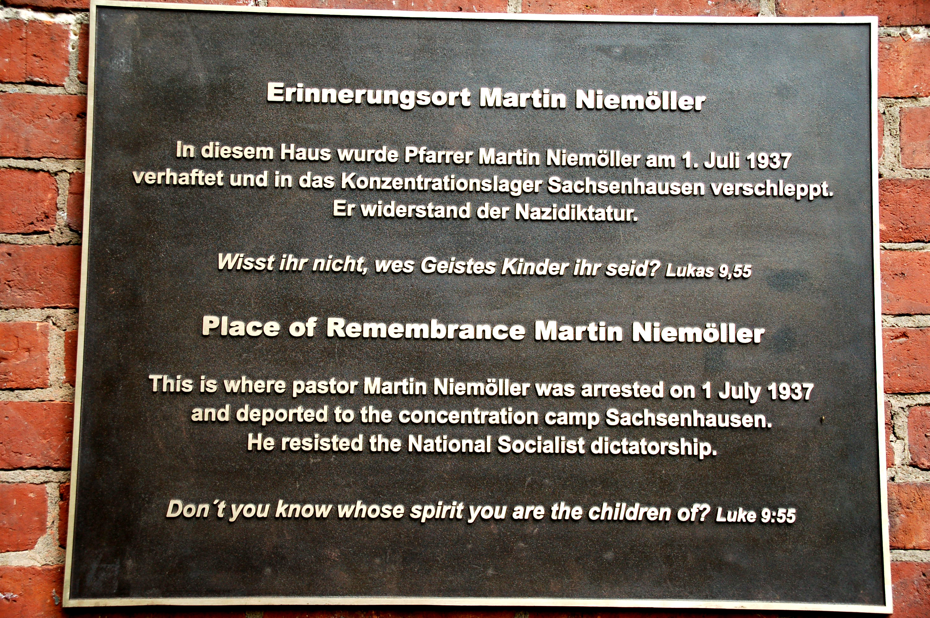 image: RemembranceMartinNiemoeller.Berlin-Dahlem, Image: image produced by Berkan, 2007, picture shows “RemembranceMartinNiemoeller”, Berlin-Dahlem, Germany/Source= created by User:Berkan